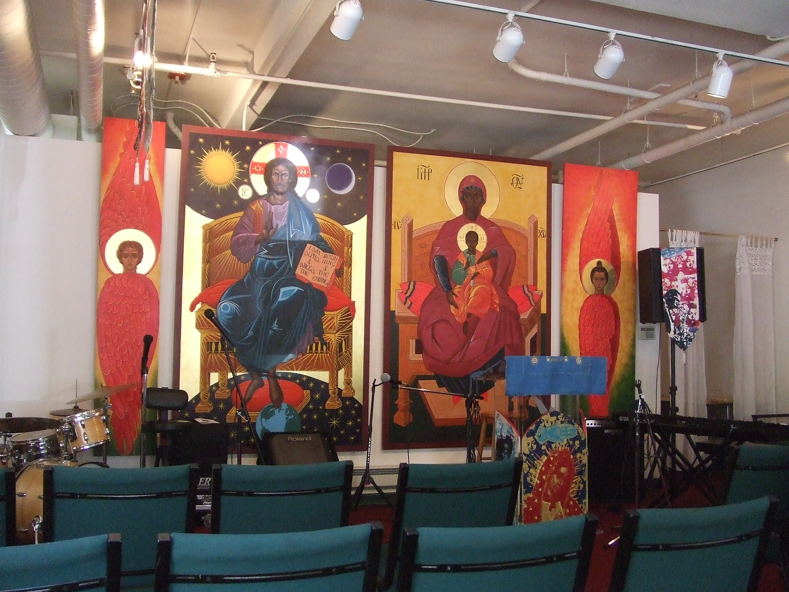 Coltrane Church San Francisco